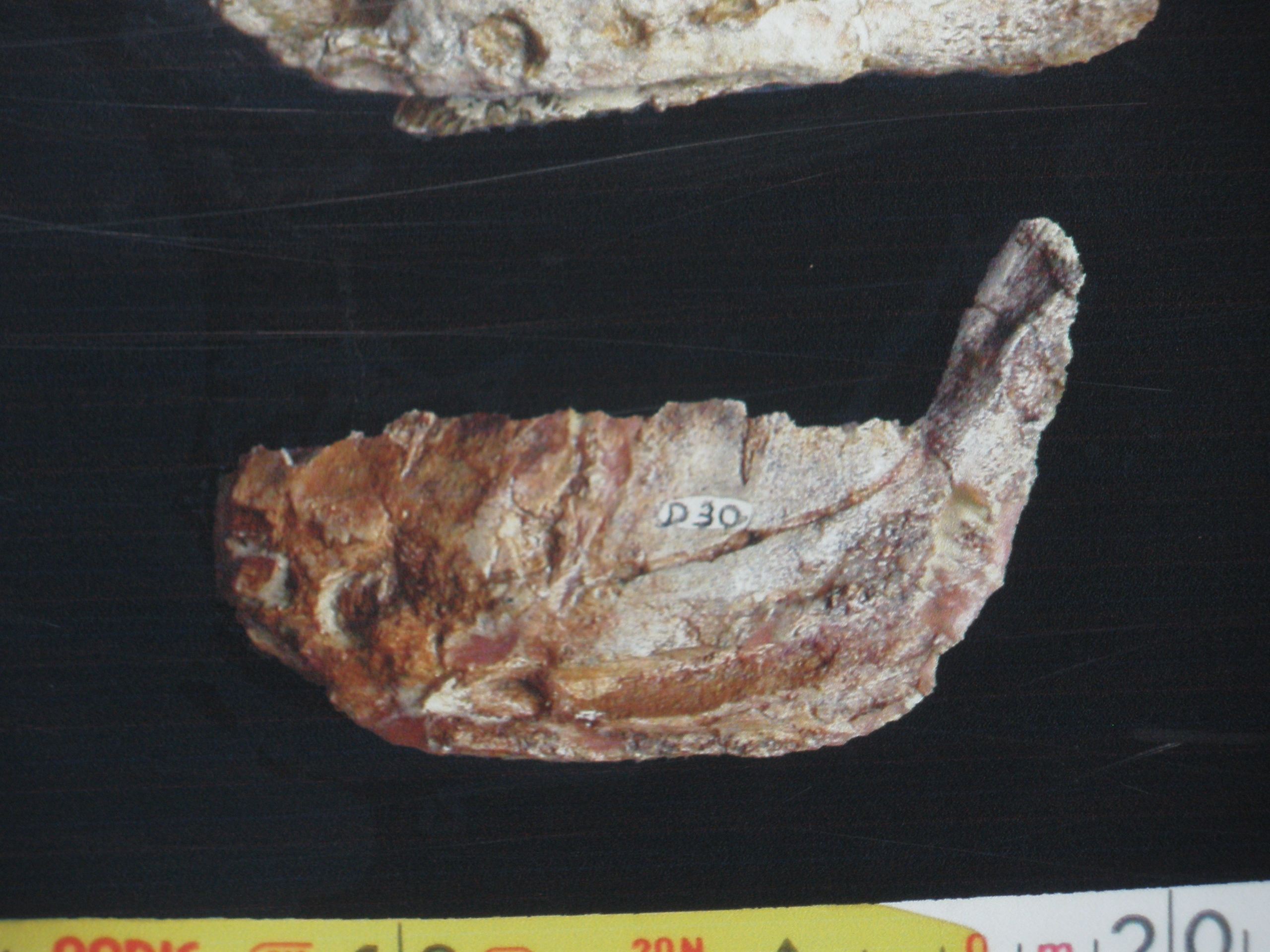 fossil Rhabdodon septimanicus